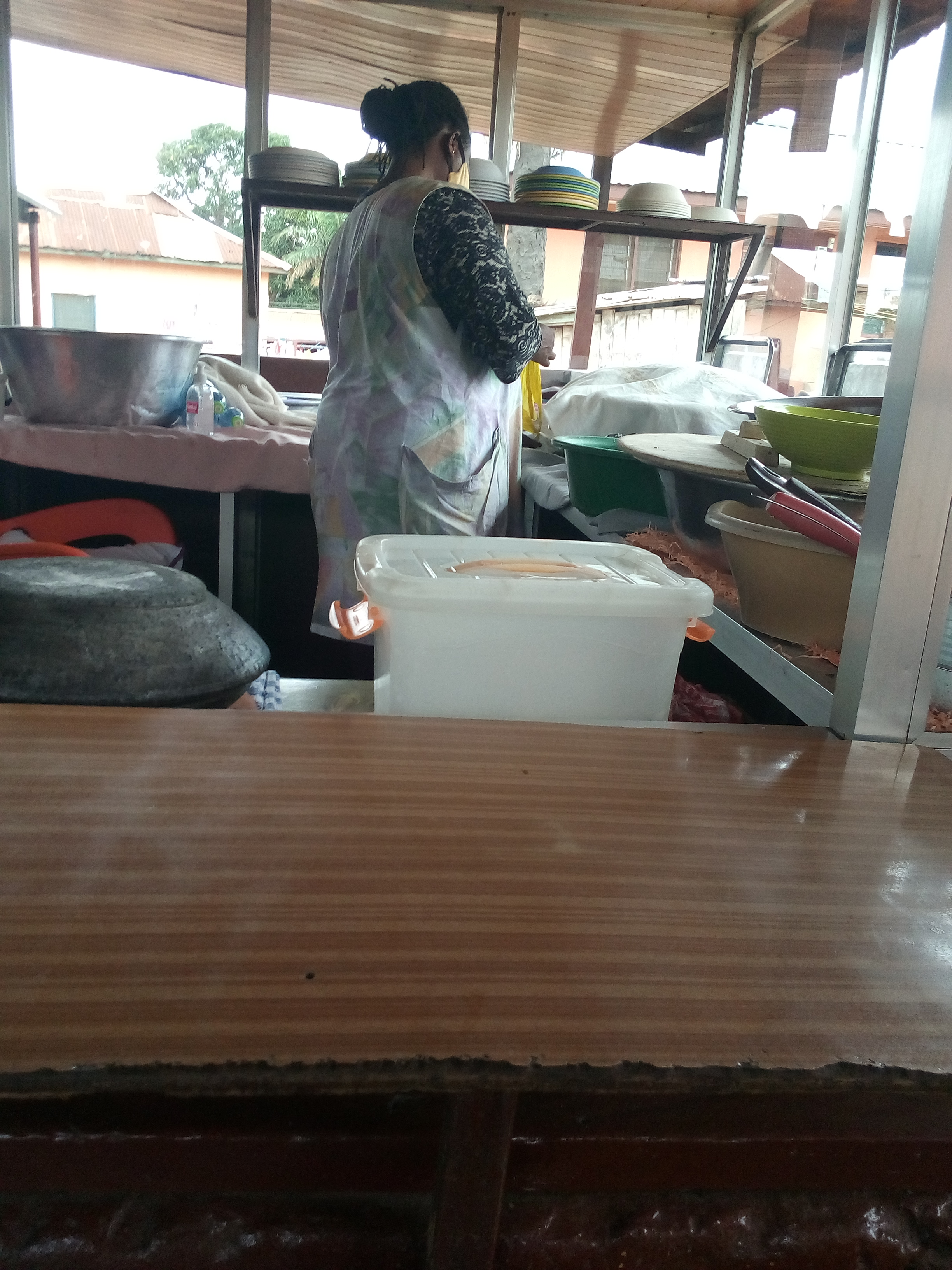 Banku joint